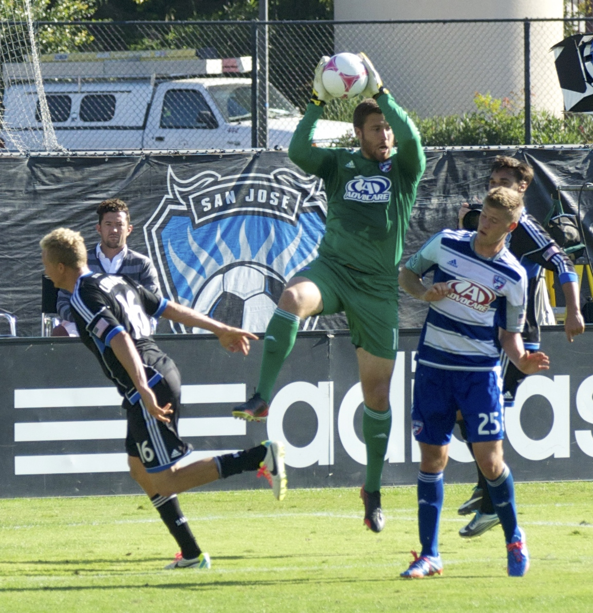 Chris Seitz, FC Dallas, Buck Shaw Stadium, 26 October 2013